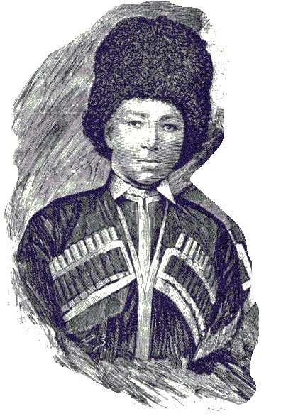 Tsiokh (Mikhail) Dadeshkeliani, Prince of Svaneti